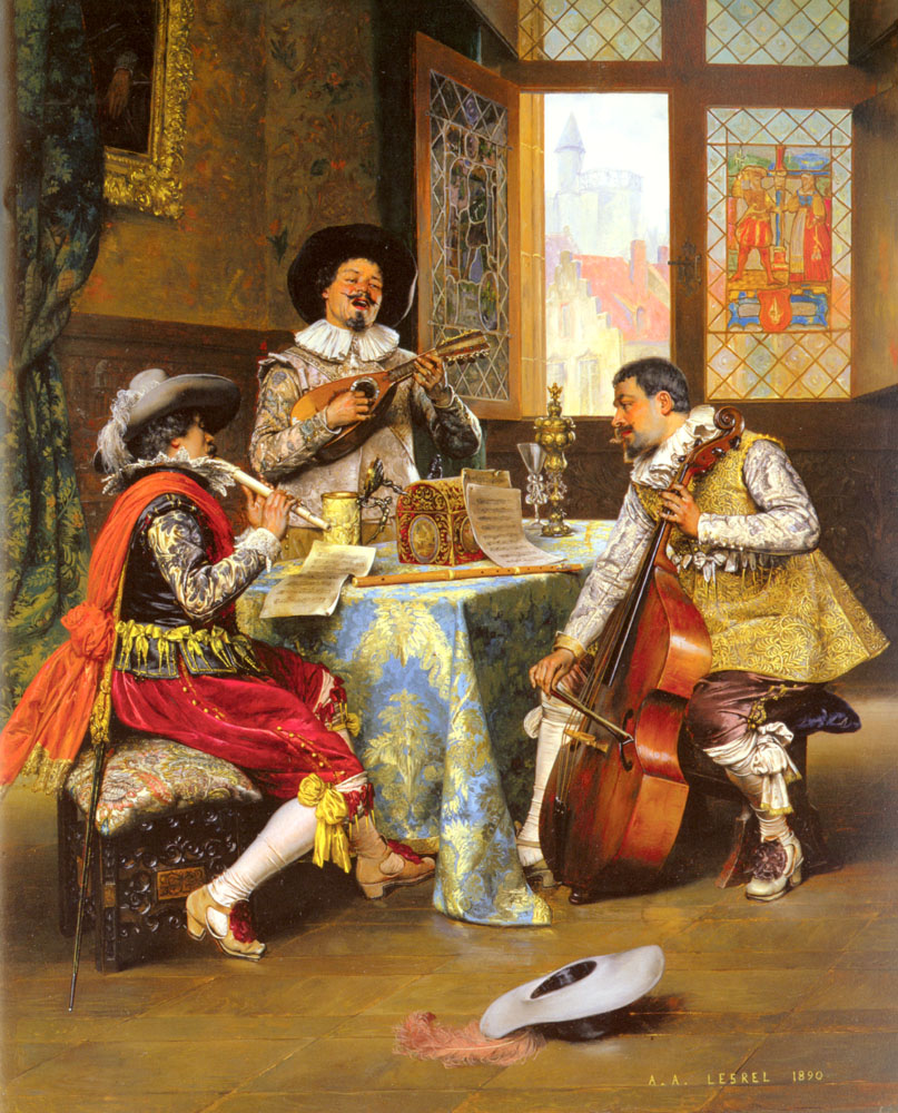 The Musical Trio